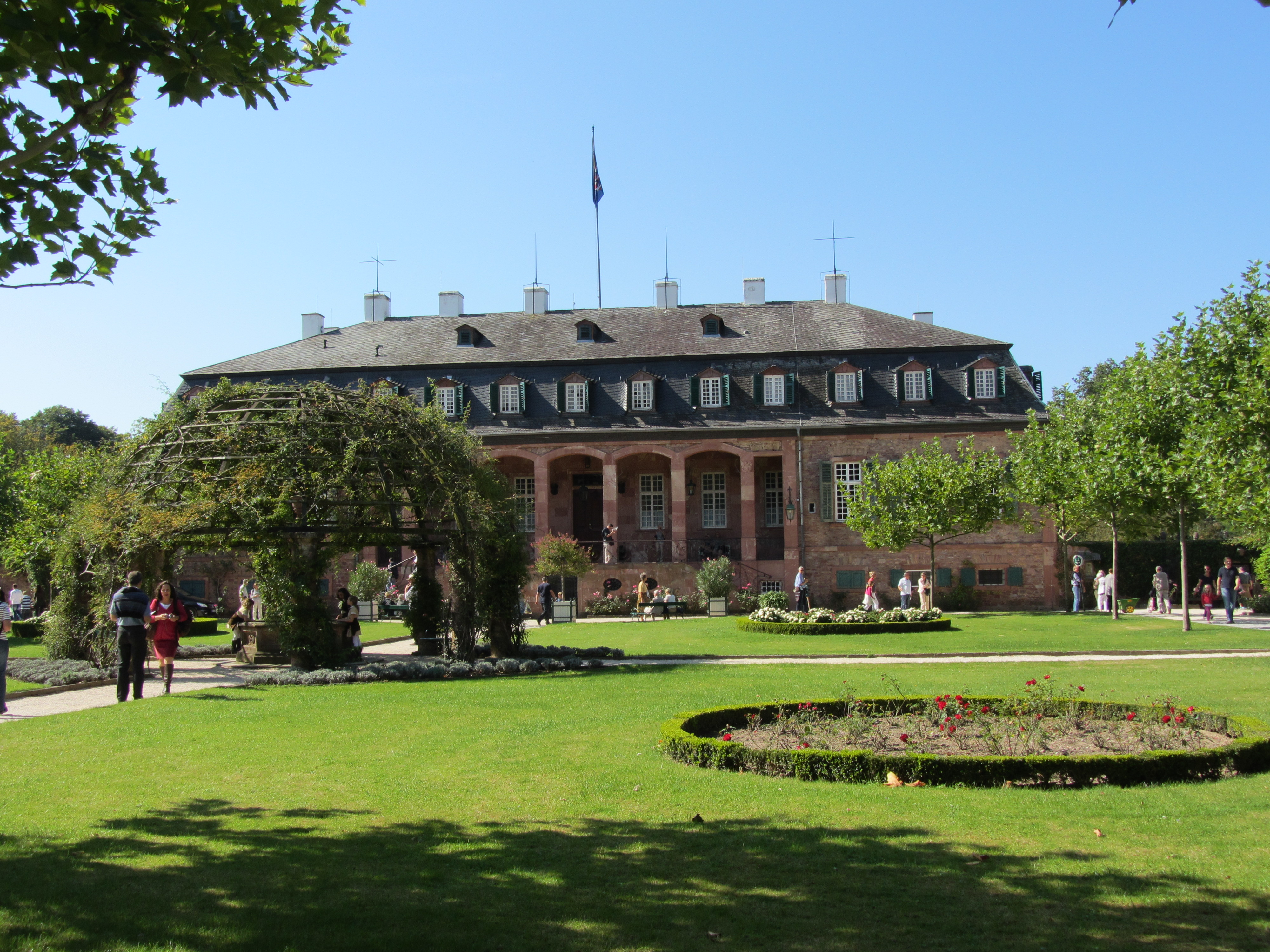 The manor house of the hunting castle Wolfsgarten